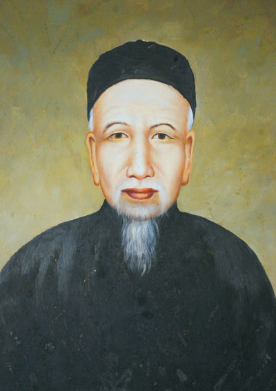 Liang Fa, the 2nd mainland Chinese Protestant convert and 1st mainland Chinese ordained Protestant minister. Also known as Liang Gongfa, Liang A-fa, Liang Afa, etc.